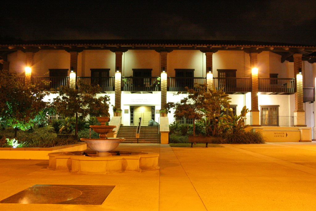 Institute of the Americas, UCSD